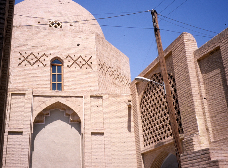 Naeen Congregation (Jame') Mosque — Jameh Mosque of Nain, in Naeen, Ishfahan province, Iran. One of Iran's oldest mosques.